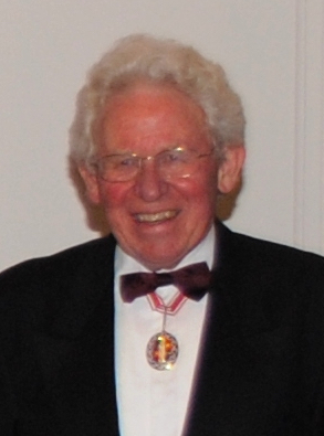 Sir Kenneth Keith at the Order of New Zealand Dinner at Government House in Wellington on 12 August 2011.